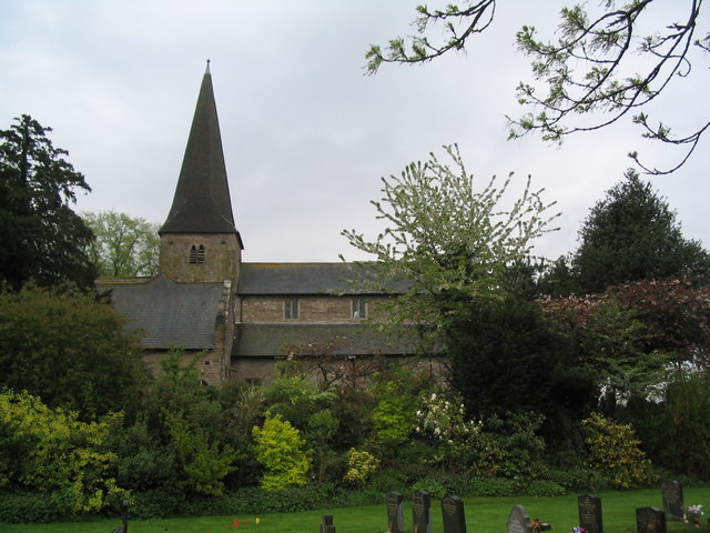 St Teilo's parish church, Llantilio Crossenny, Monmouthshire, seen from the north